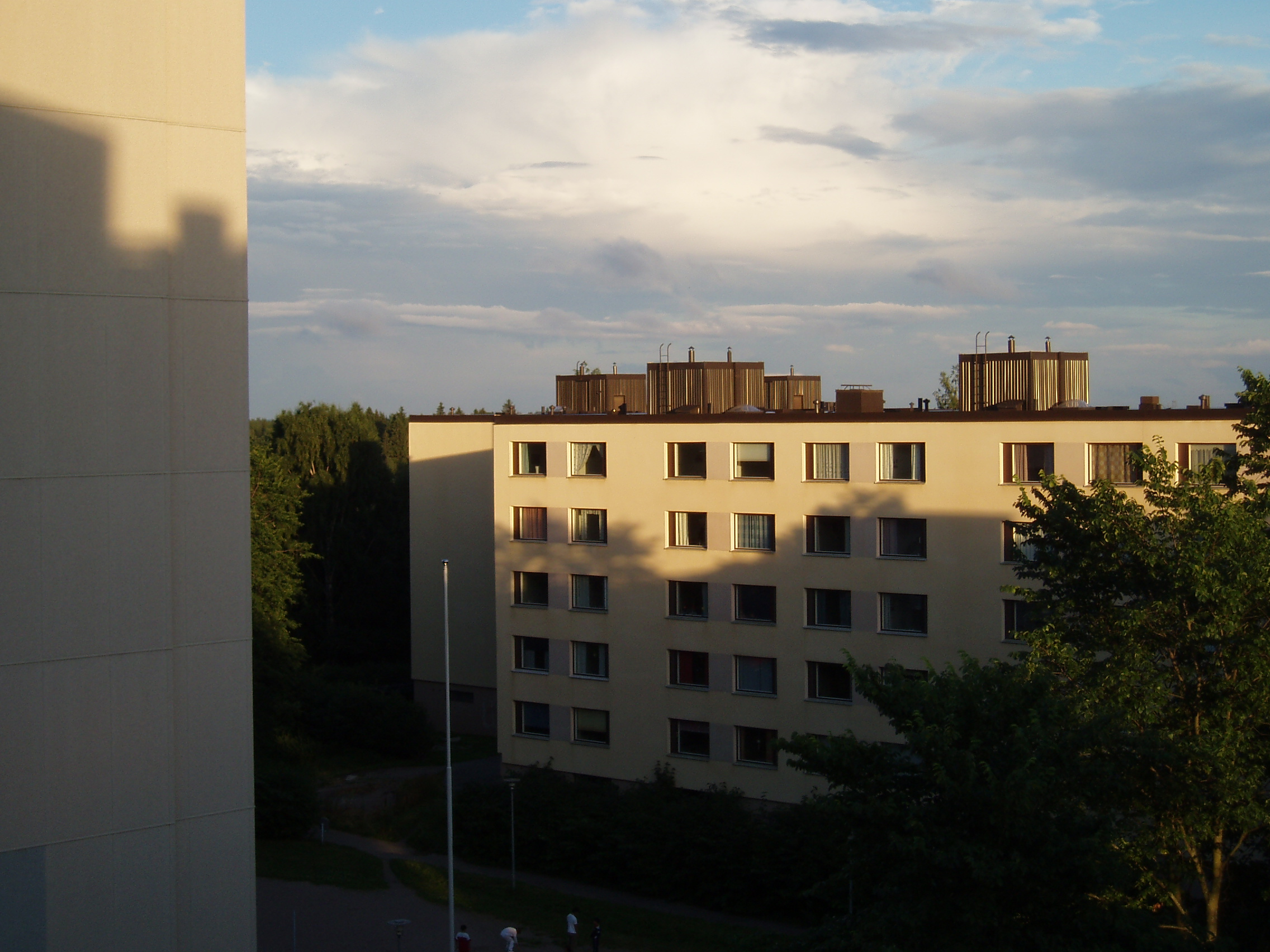 Flats in Hakunila, Vantaa, Finland.